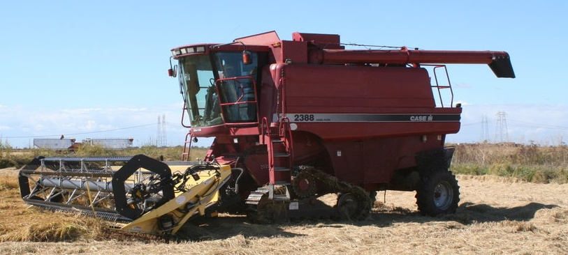 CASE combine harvester Axial-Flow 2388 X-Clusive